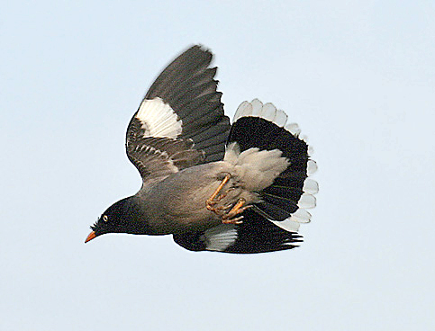 Jungle Myna Acridotheres fuscus in Kolkata, West Bengal, India.